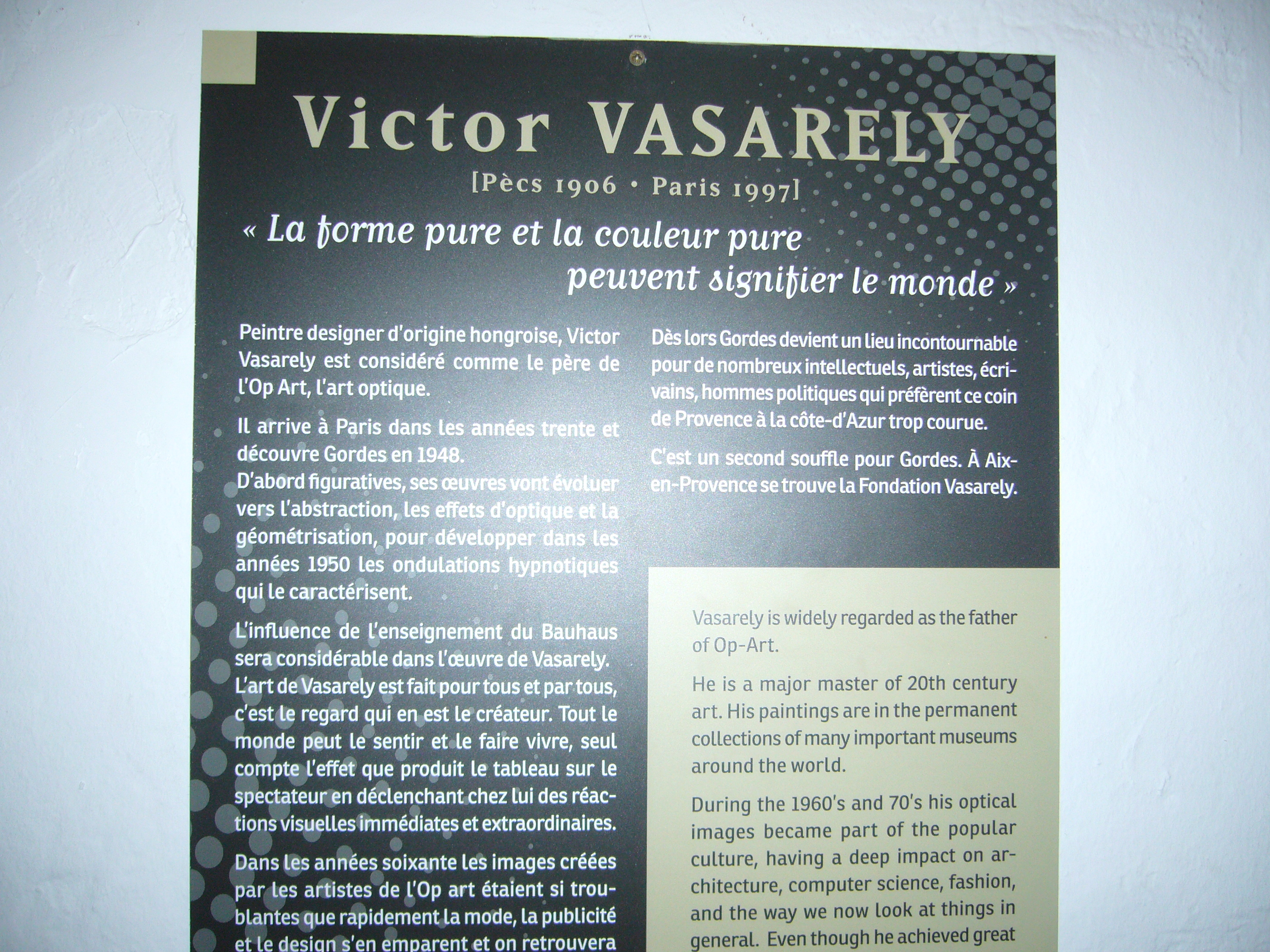 Commemorative poster paying tribute to Victor Vasarely